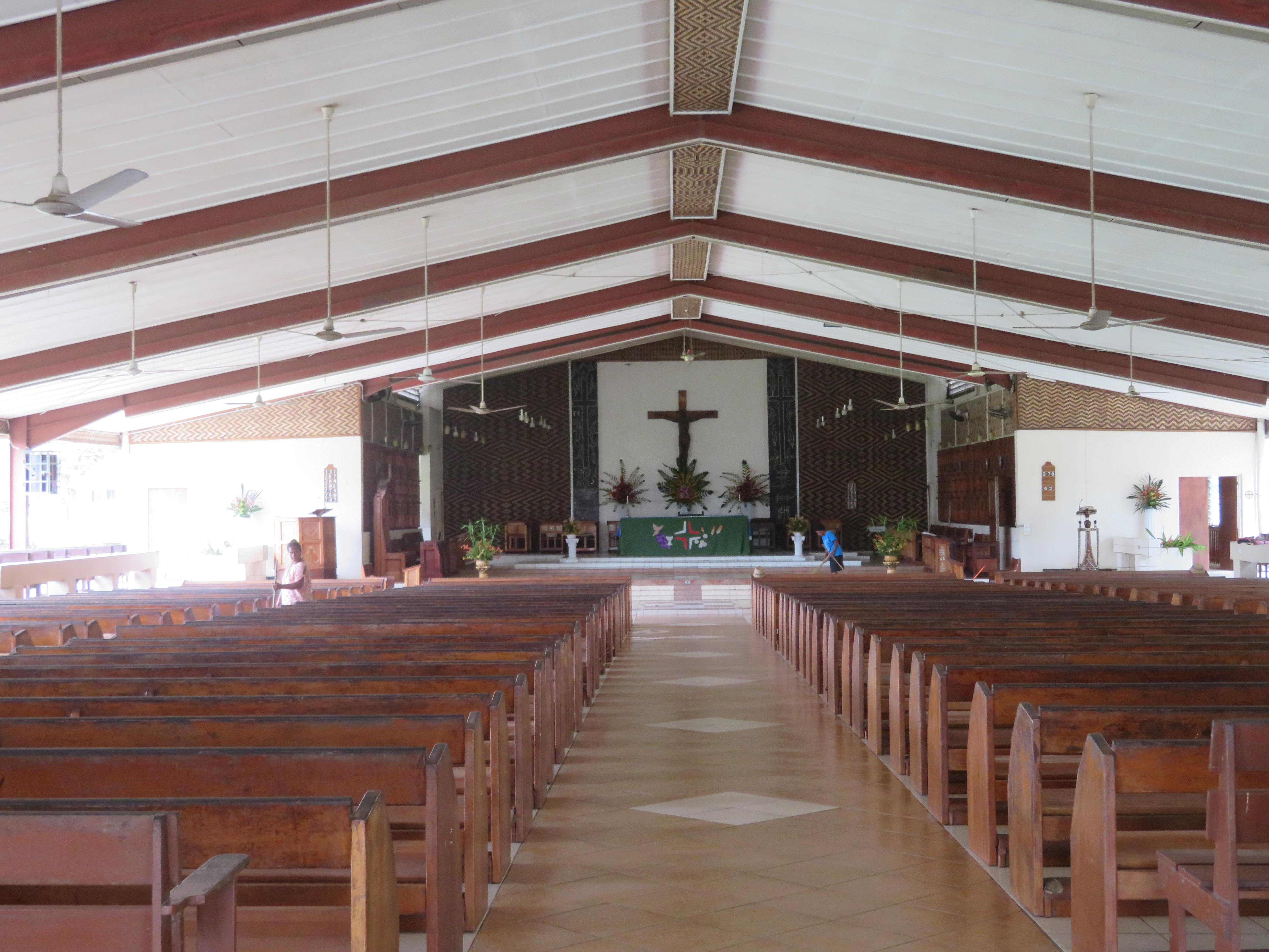 Inerior of St. Barnabas Anglican Cathedral in Honiara, Solomon Islands